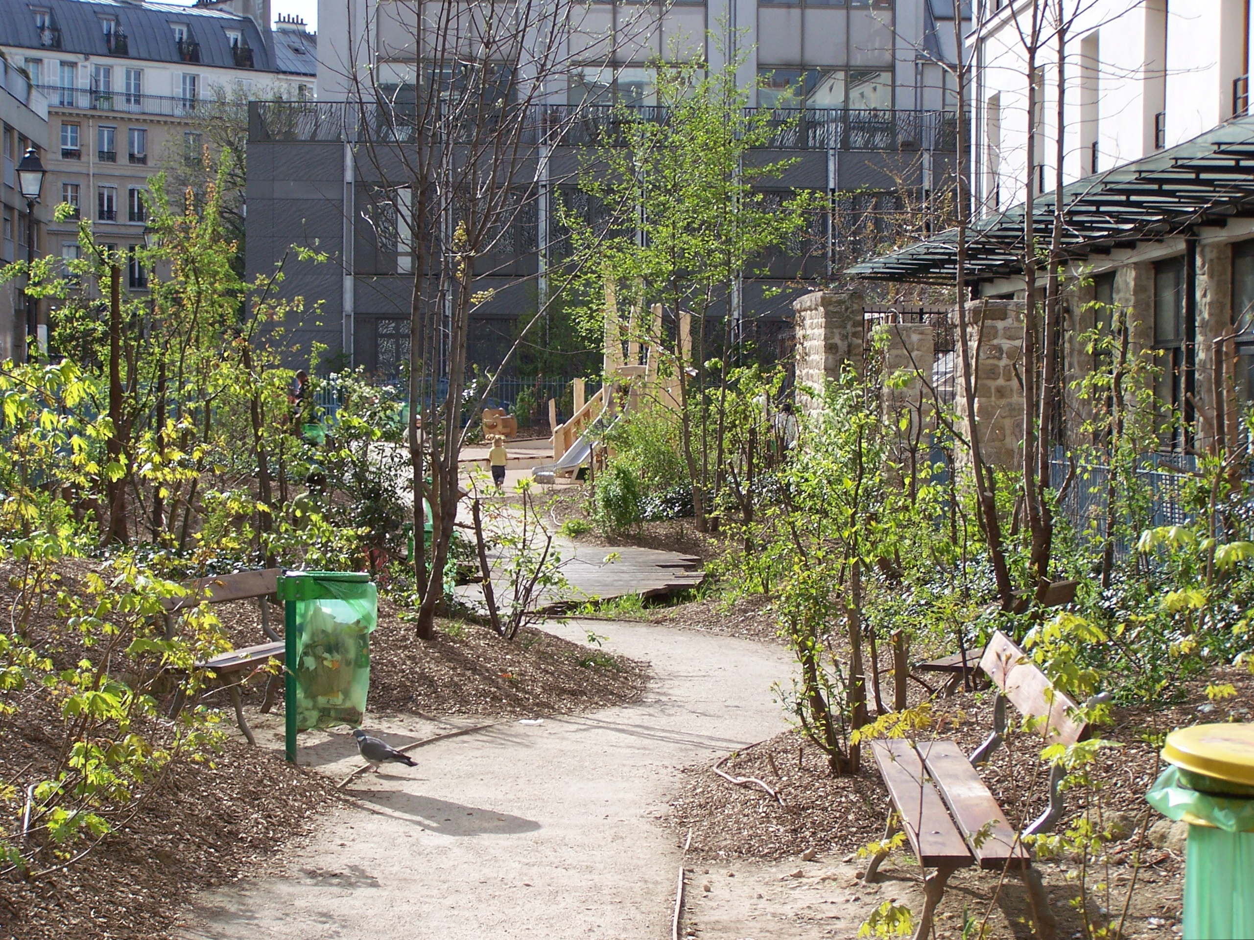 View of the square